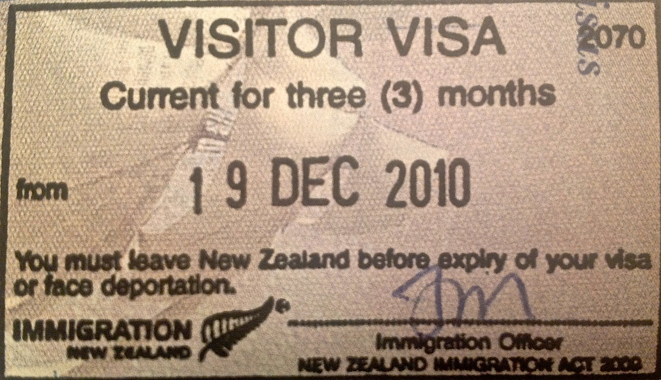 New Zealand Entry Stamp issued at Auckland. Shown in a US Passport.